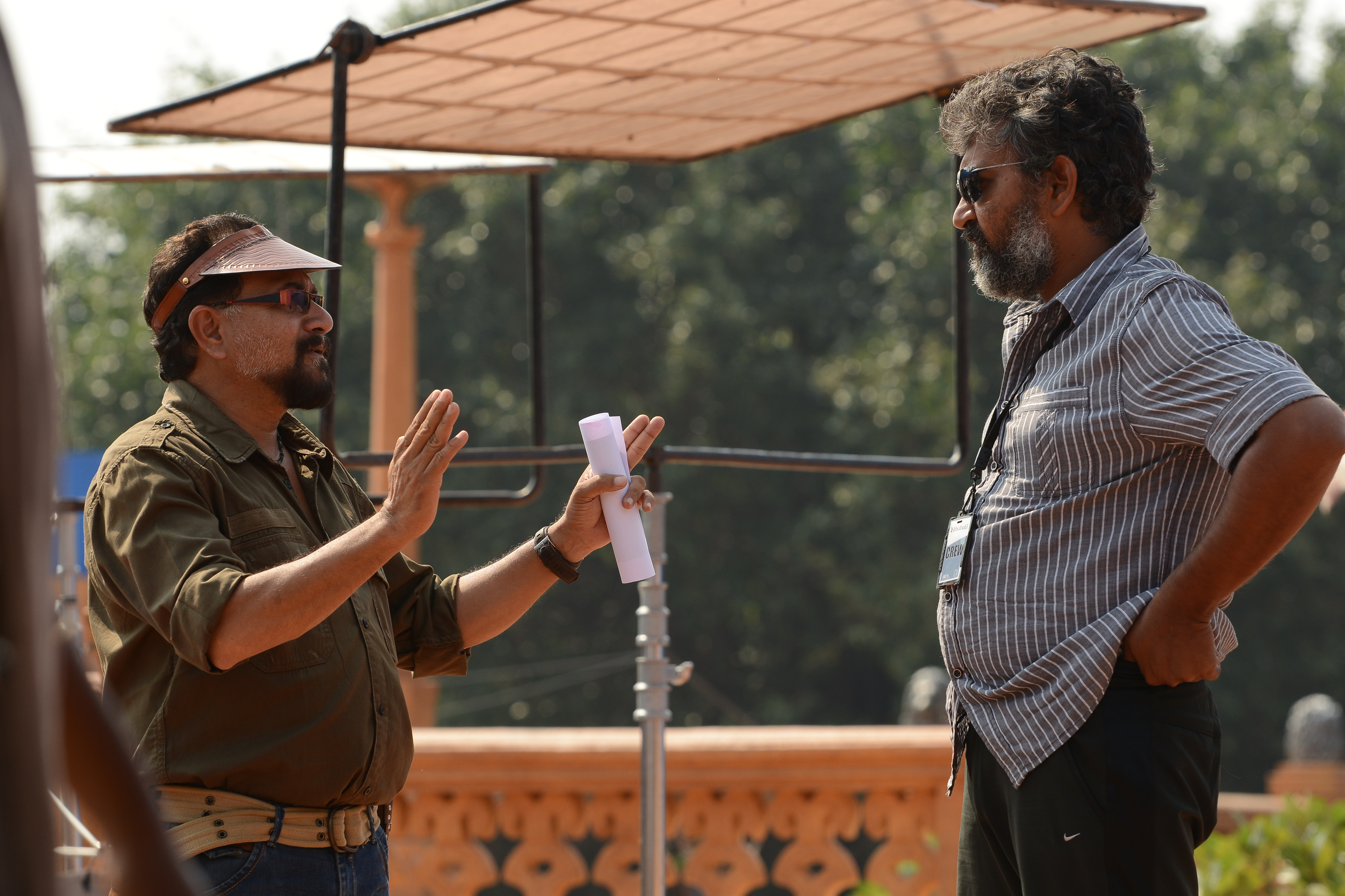 Working Stills Bahubali With Rajamouli